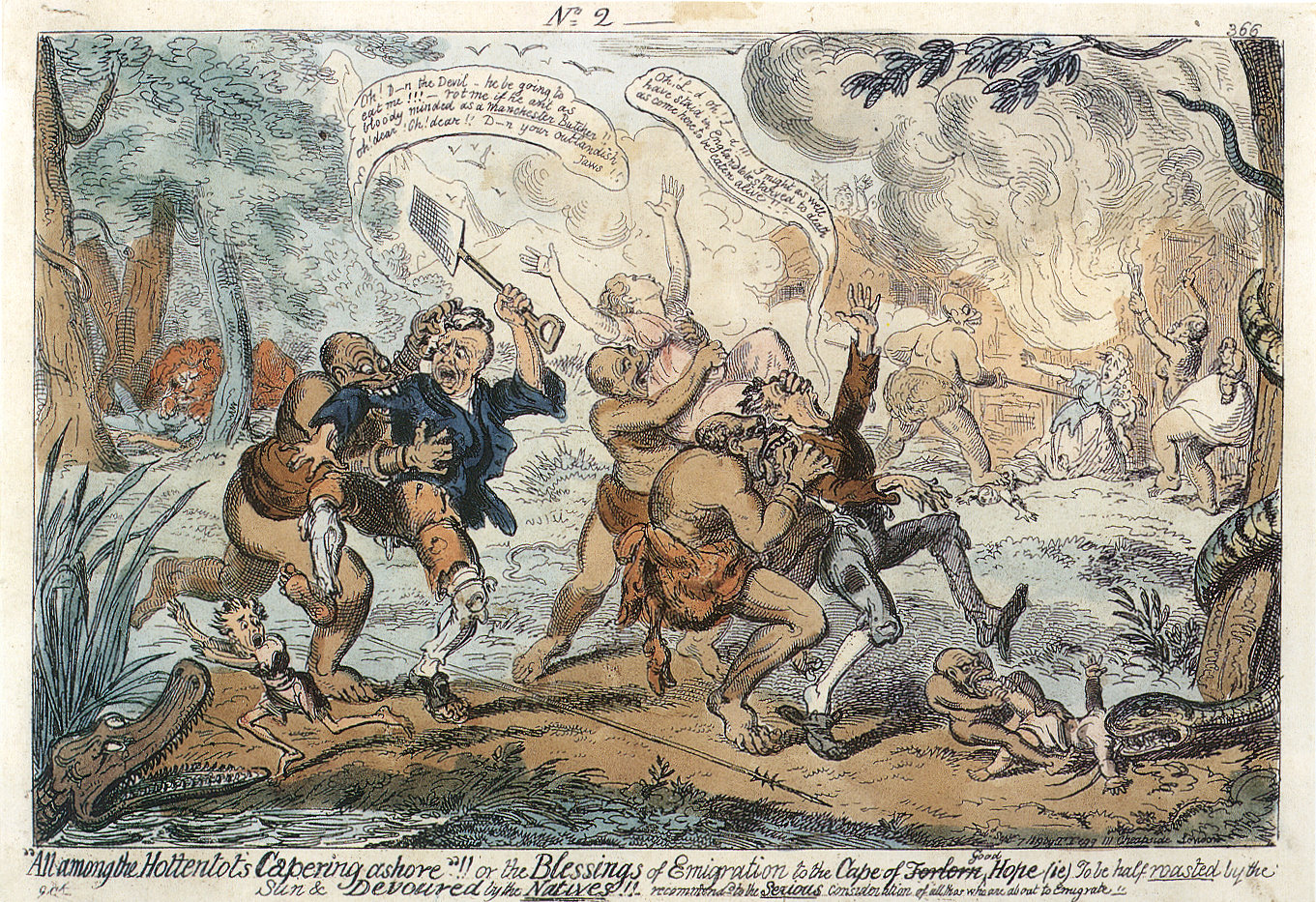 All among the Hottentots Capring ashore, a satirical view of the 1820 settlers, to remind emigrants of the dangers awaiting them.